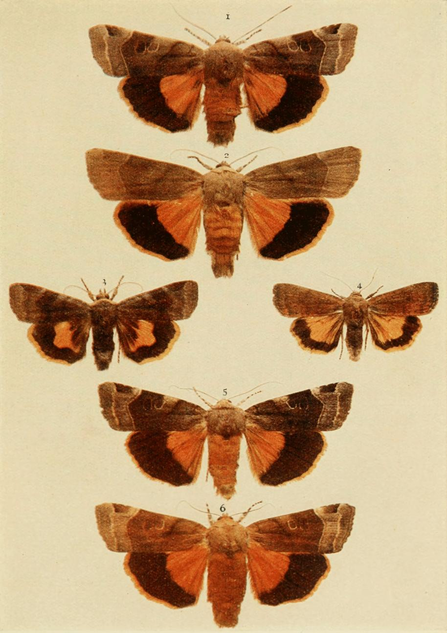 Plate 116. DescriptionBinomial in textModern accepted name1, 2, 5, 6. Broad-Bordered Yellow Underwing.Triphæna fimbriaNoctua fimbriata3. Lesser Broad-Bordered Yellow Underwing.Triphæna ianthinaNoctua janthe4. Least Yellow Underwing.Triphæna interjectaNoctua interjecta